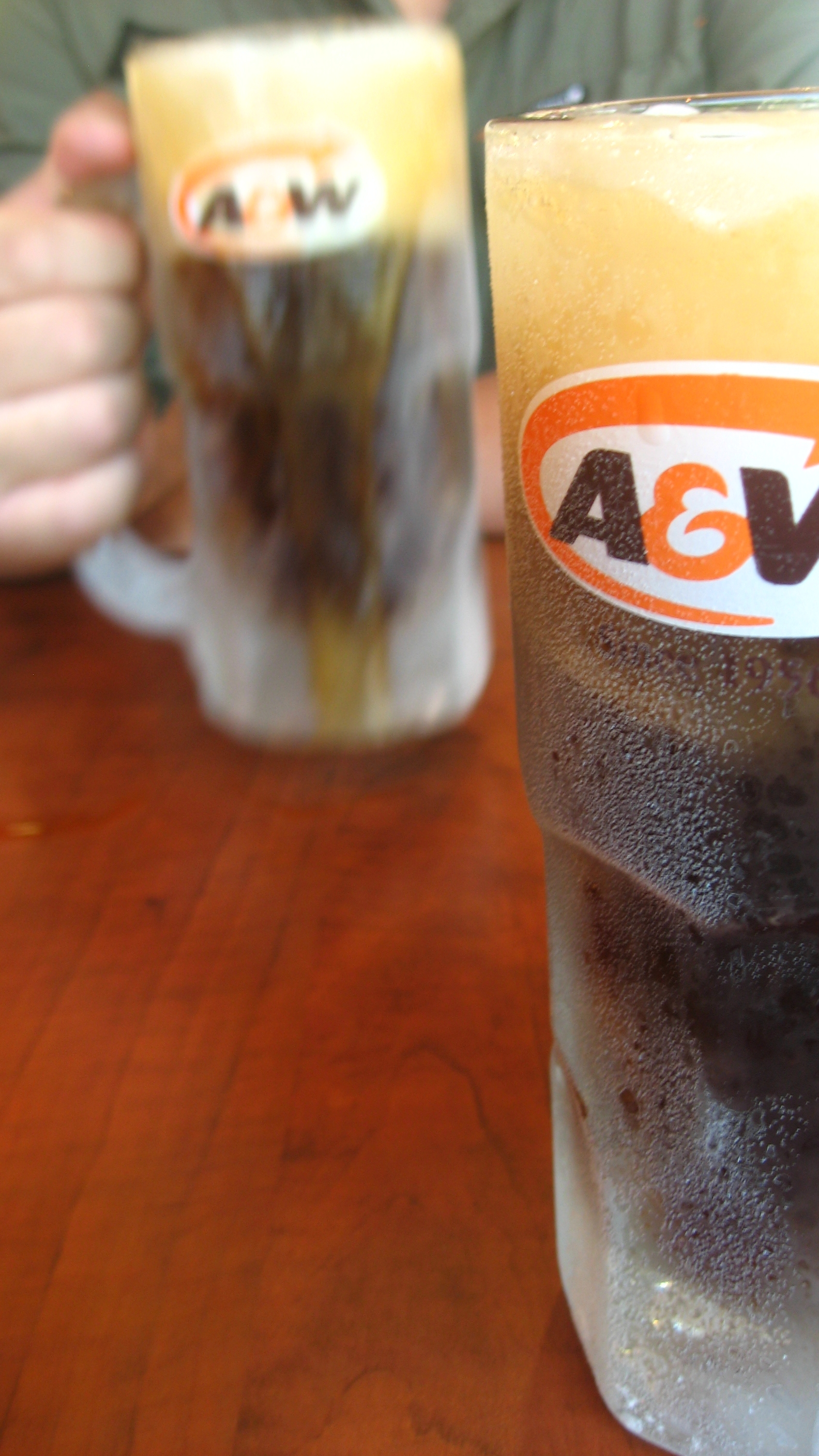 A&W Canada root beer.